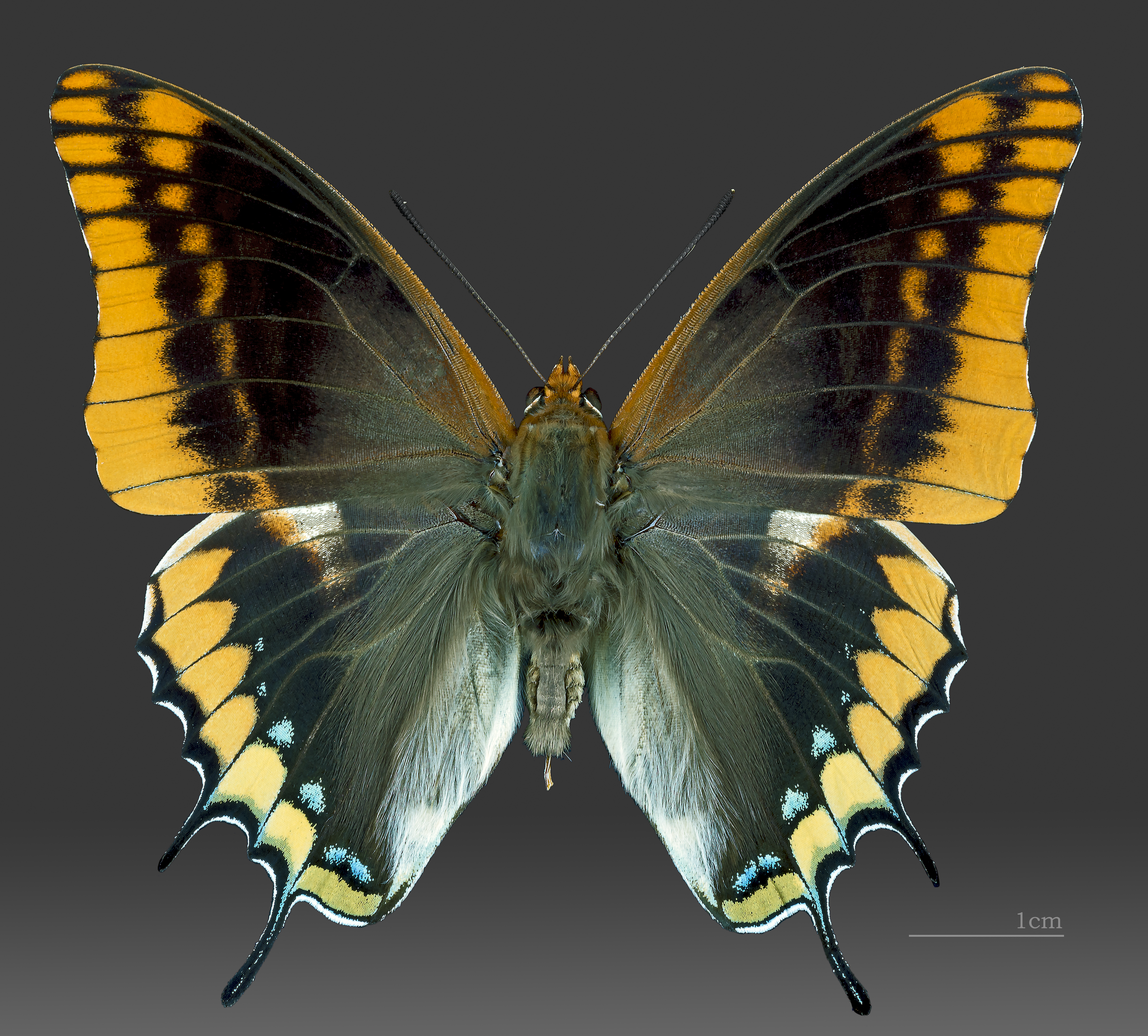 Foxy Emperor - Dorsal side